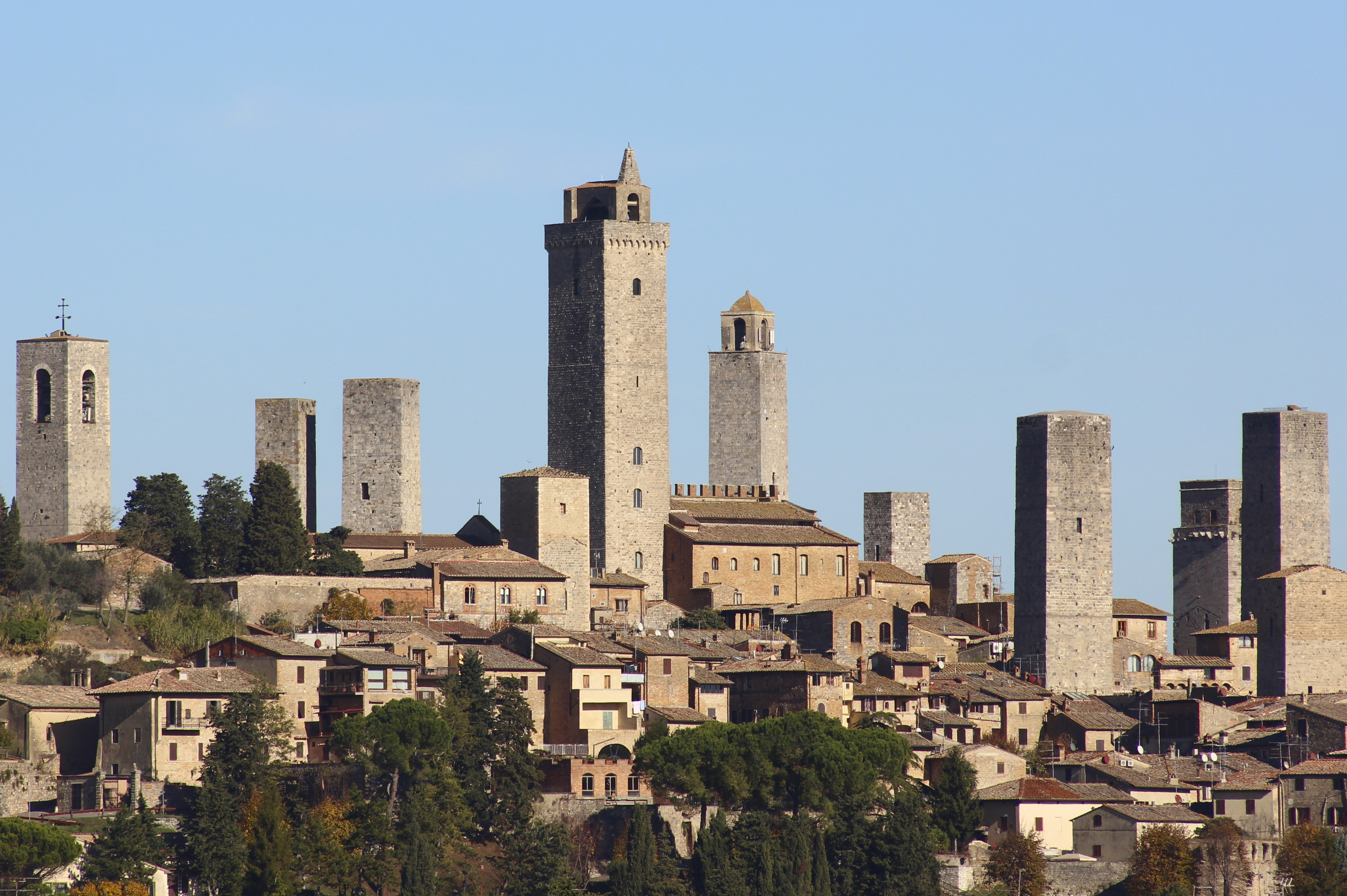 Panorama of San Gimignano, Province of Siena, Tuscany, Italy